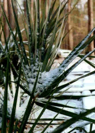 Dwarf Palmetto in Congaree National Park